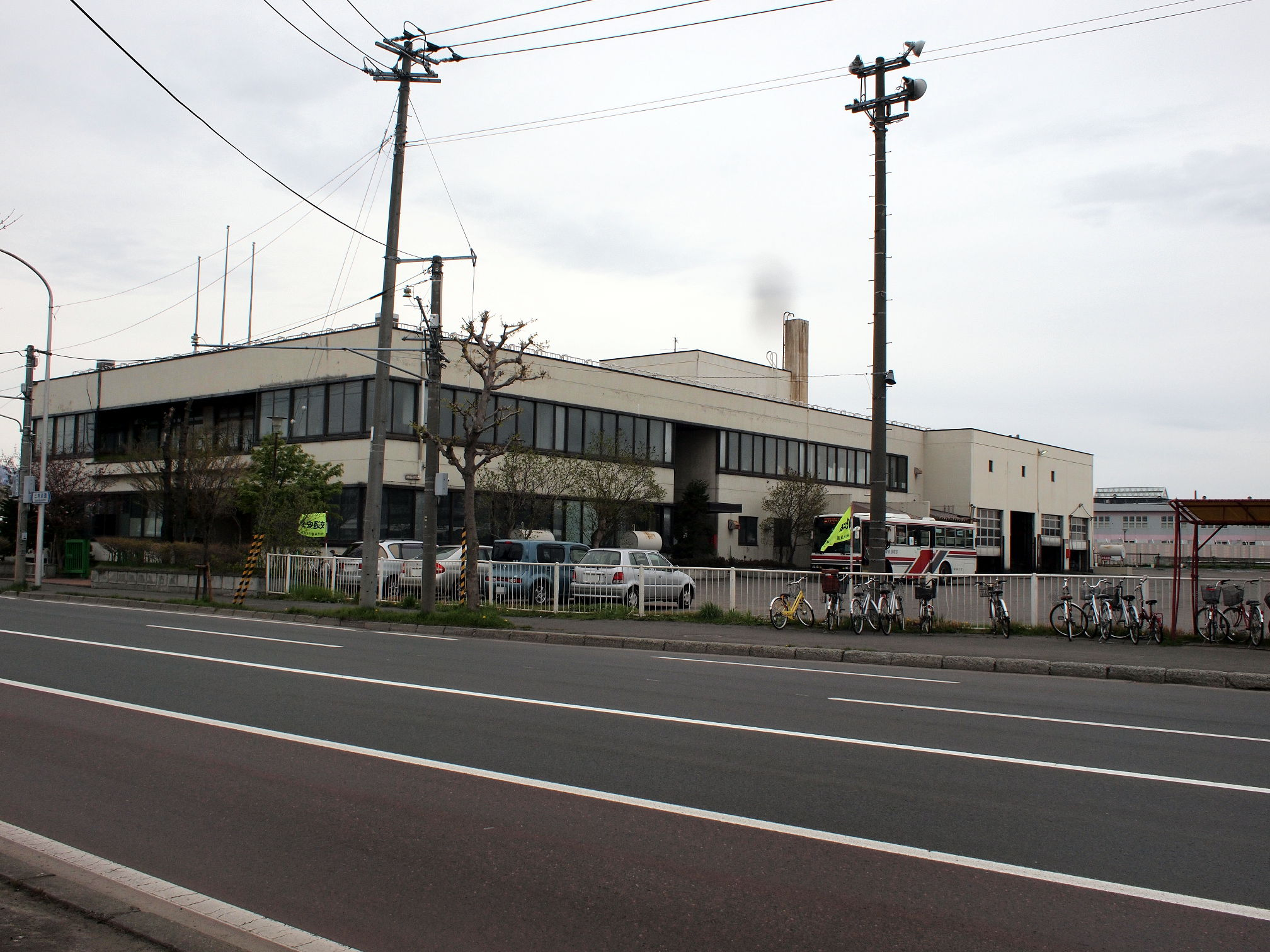 Hokkaido Chuo Bus Sapporo Higashi Office, Sapporo, Hokkaido, Japan